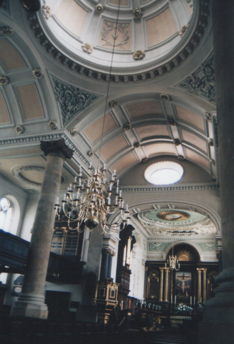 All Saints' Church, Northampton - interior.